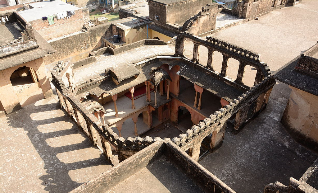 It's a beautiful architecture design of Khetri Mahal